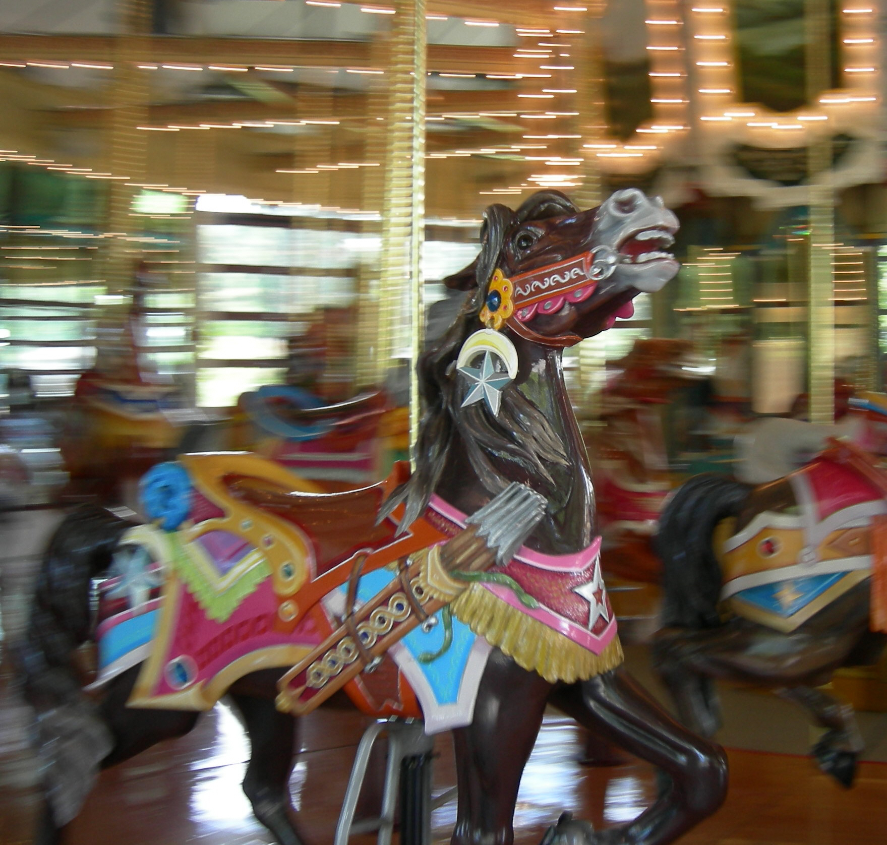 Carousel, Woodland Park Zoo, Seattle, Washington. Hand-carved carousel originally built for the Cincinnati Zoo in 1918 by the Philadelphia Toboggan Company, head carver John Zalar. In the 1970s, the carousel was moved to Santa Clara, California, where it operated into the 1990s. It was donated to WPZ by the Alleniana Foundation, and opened May 1, 2007 in a new pavilion on the zoo's North Meadow.